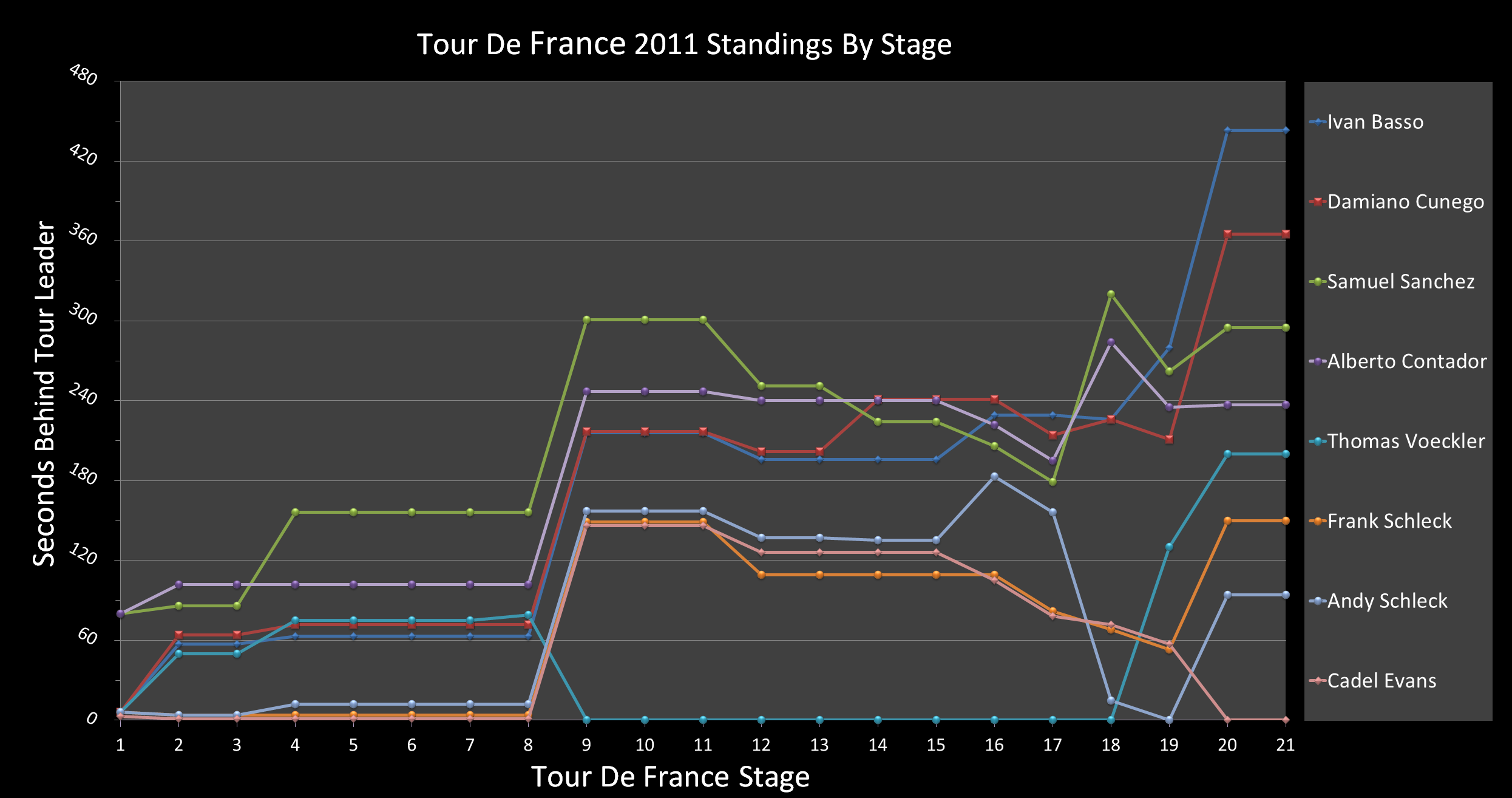 A chart a number of prominent riders of the 2011 Tour De France standings, created in Excel 2010.